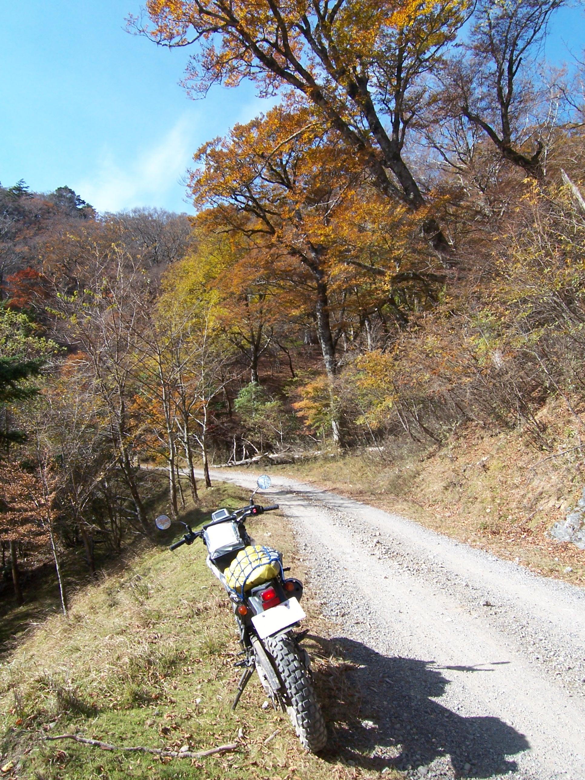 Tsurugi-san super rindo